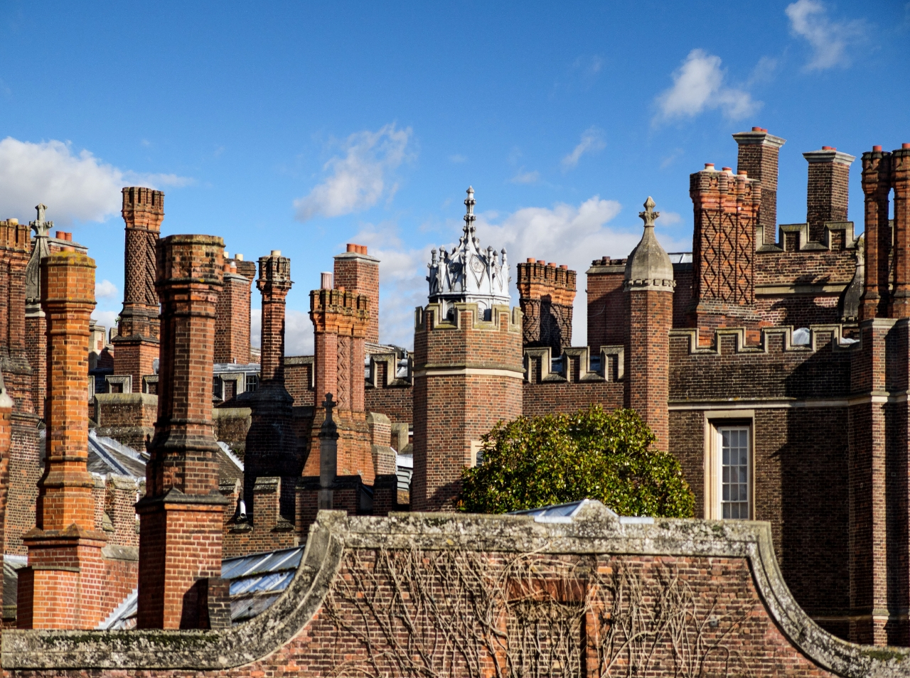 Tudor Chimney Pots at Hampton Court Palace